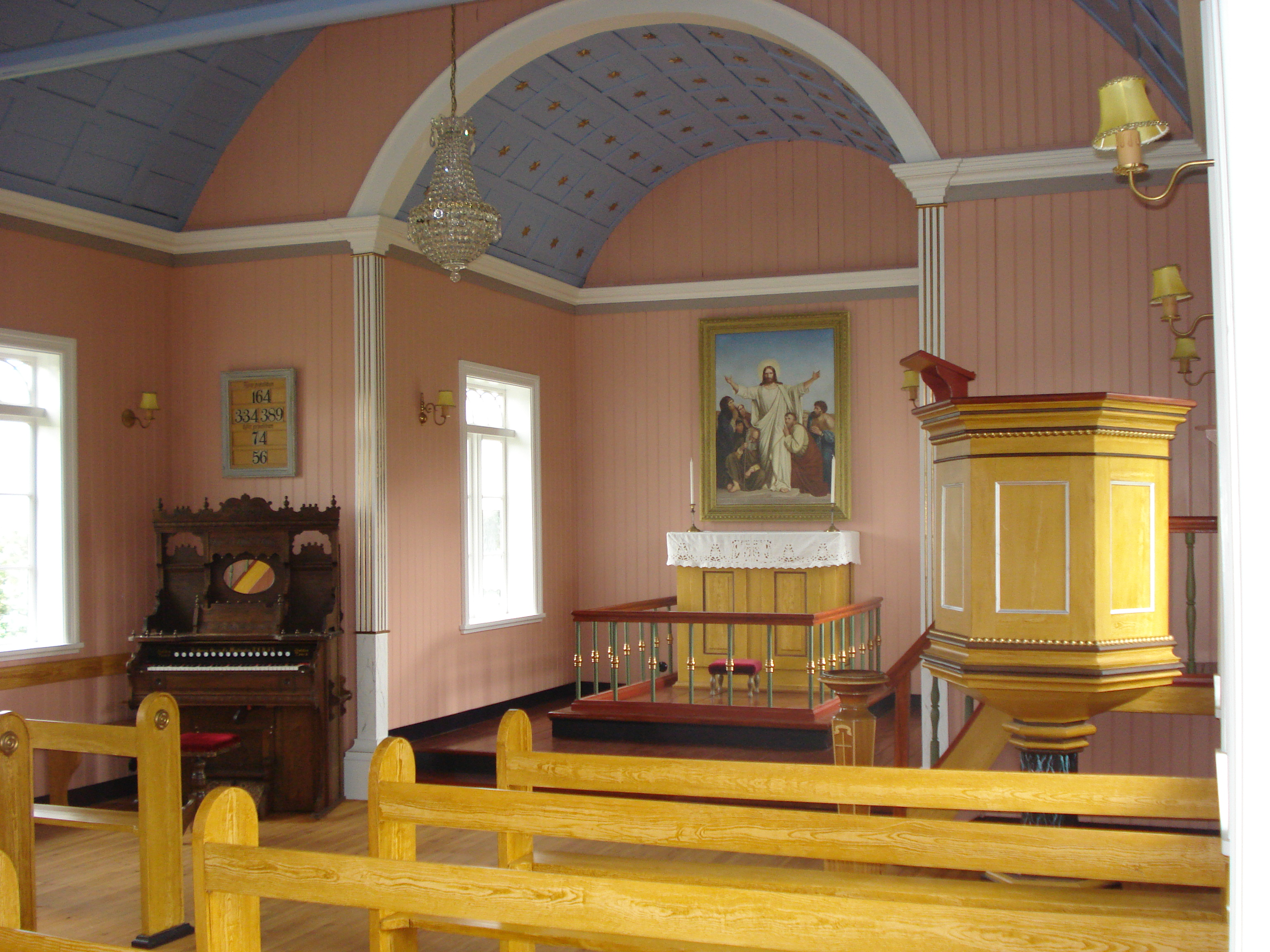 Interior of the little church in Reykholt, Iceland